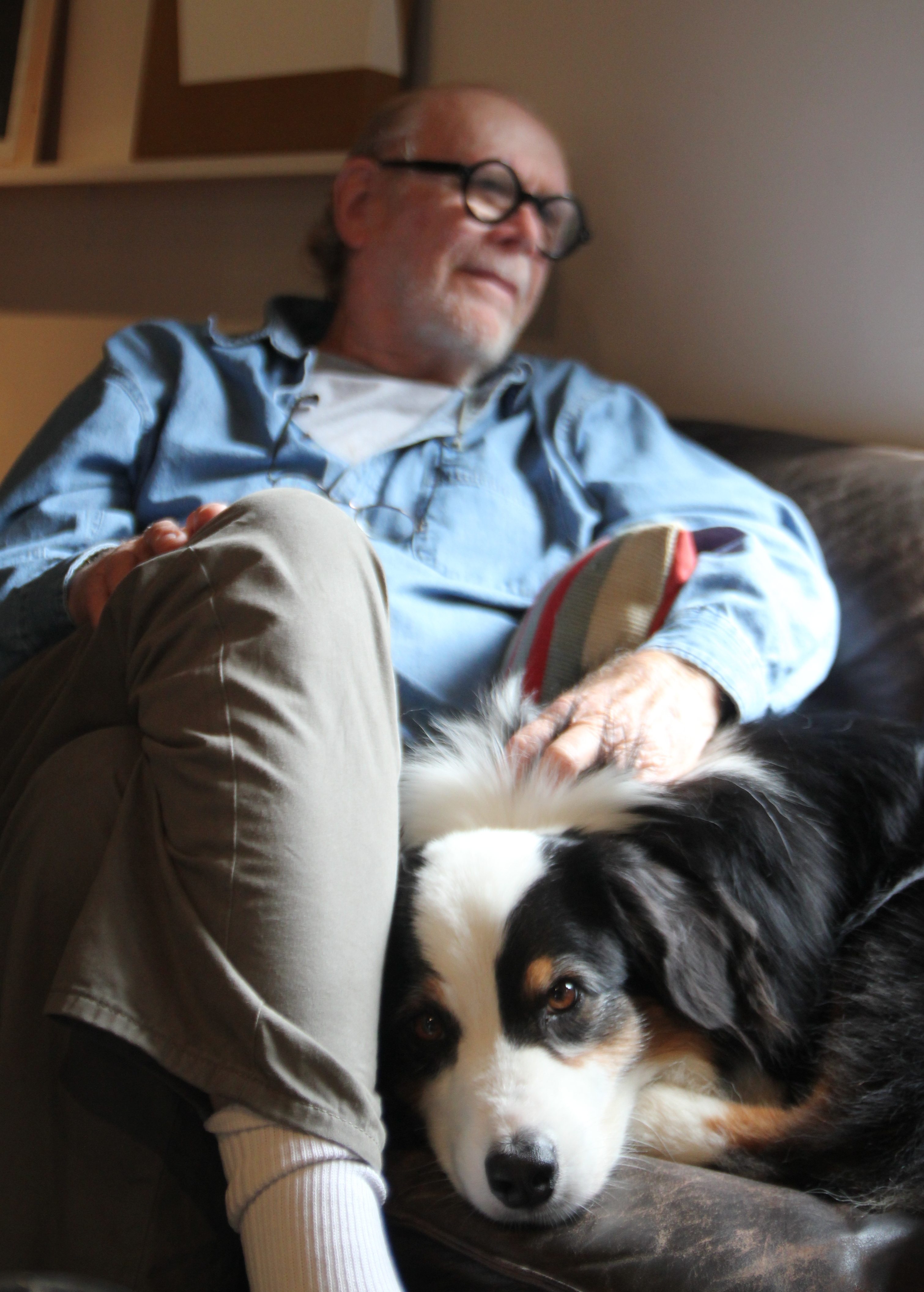 Tony DeLap with Goky at home in Corona del Mar, CA 2015